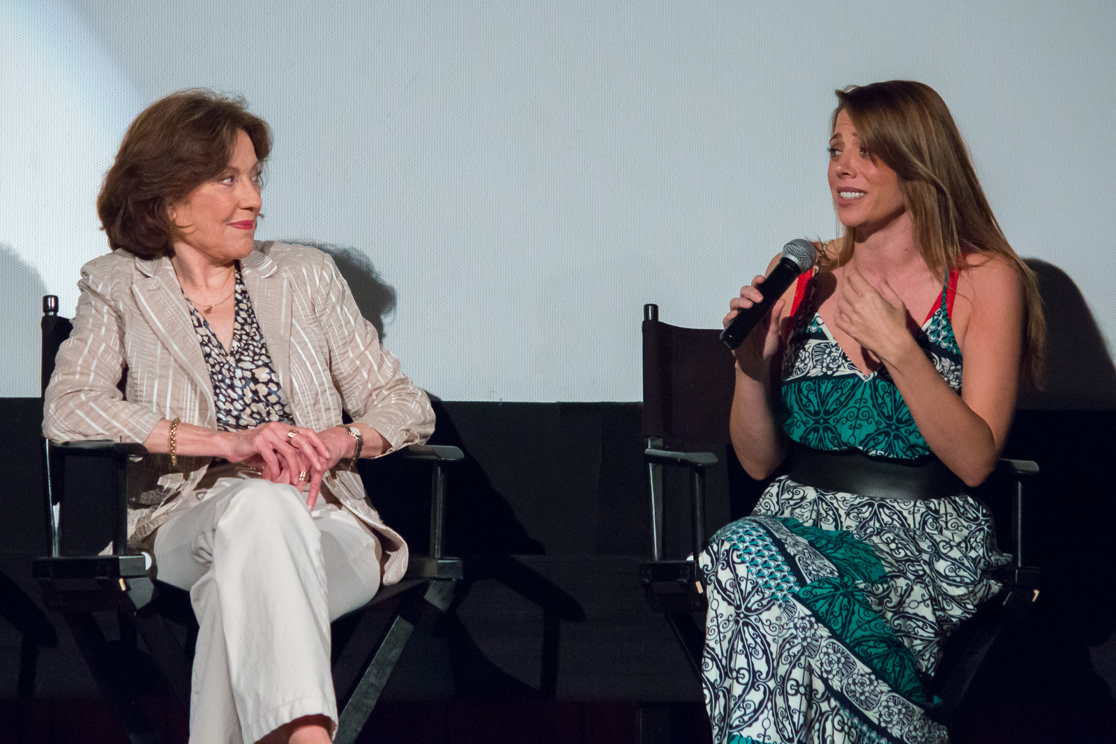 Kelly Bishop and Stacey Oristano at the ATX TV Festival 2015 for the TV show Bunheads